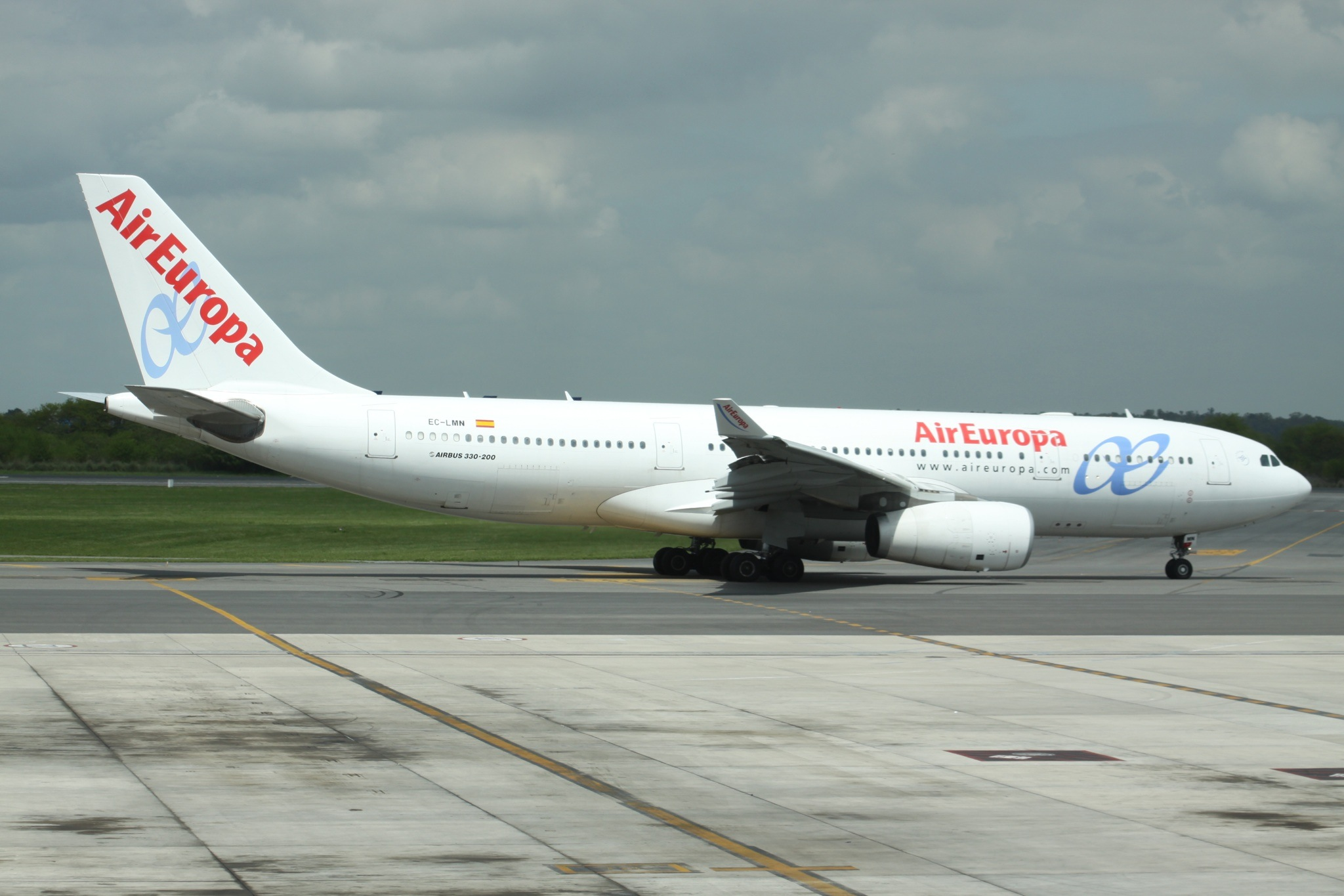 At Buenos Aires Ezeiza